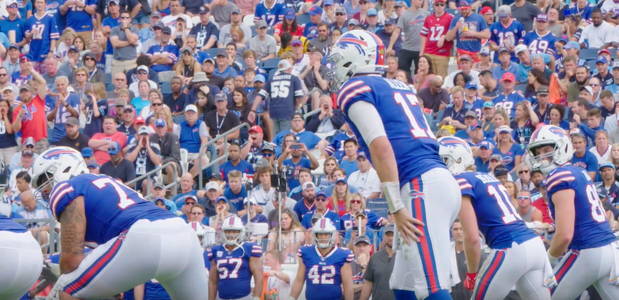 Josh Allen 2019. Image from video Kevin Byard's INT vs. Bills | Beneath the Surface, ~ 00:58